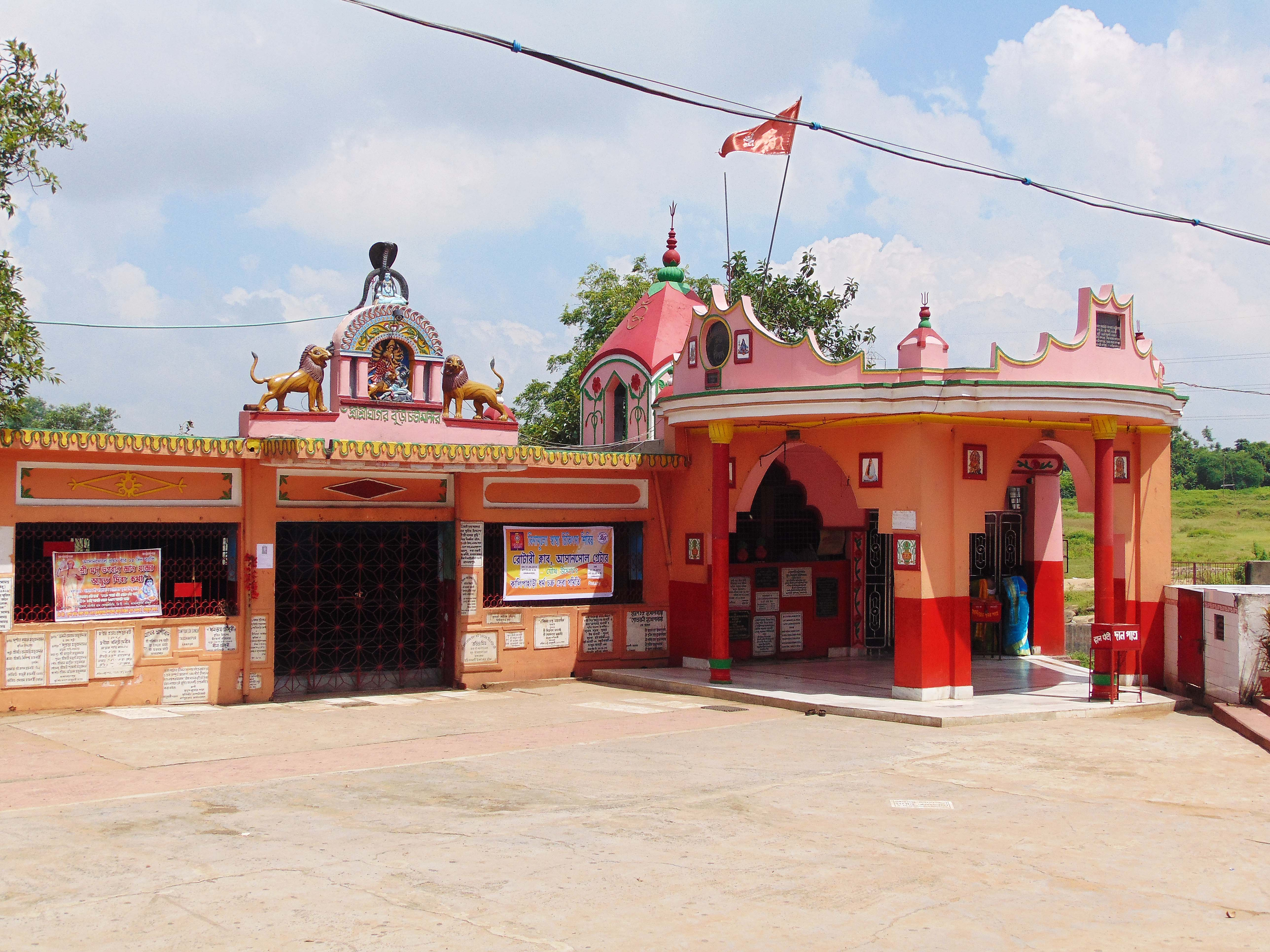 Ghagar Buri Temple, Asansol